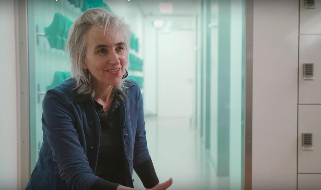 Dutch virologist Marion Koopmans. Erasmus MC opens a new laboratory for the safe conduct of infectious diseases research.